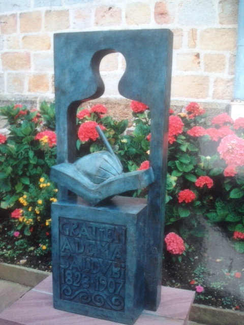 dedicated to the Basque author